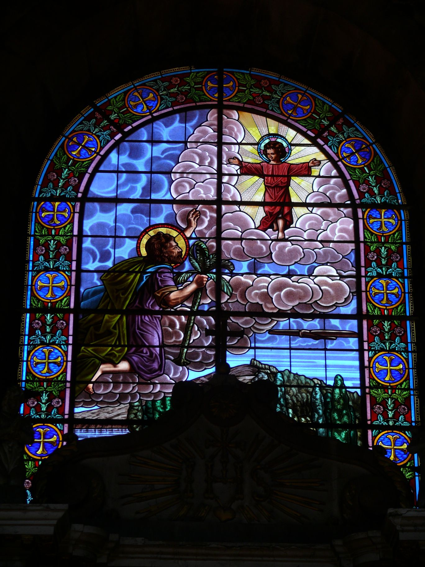 Saint-Christophe's cathedral in Belfort (Franche-Comté, France).